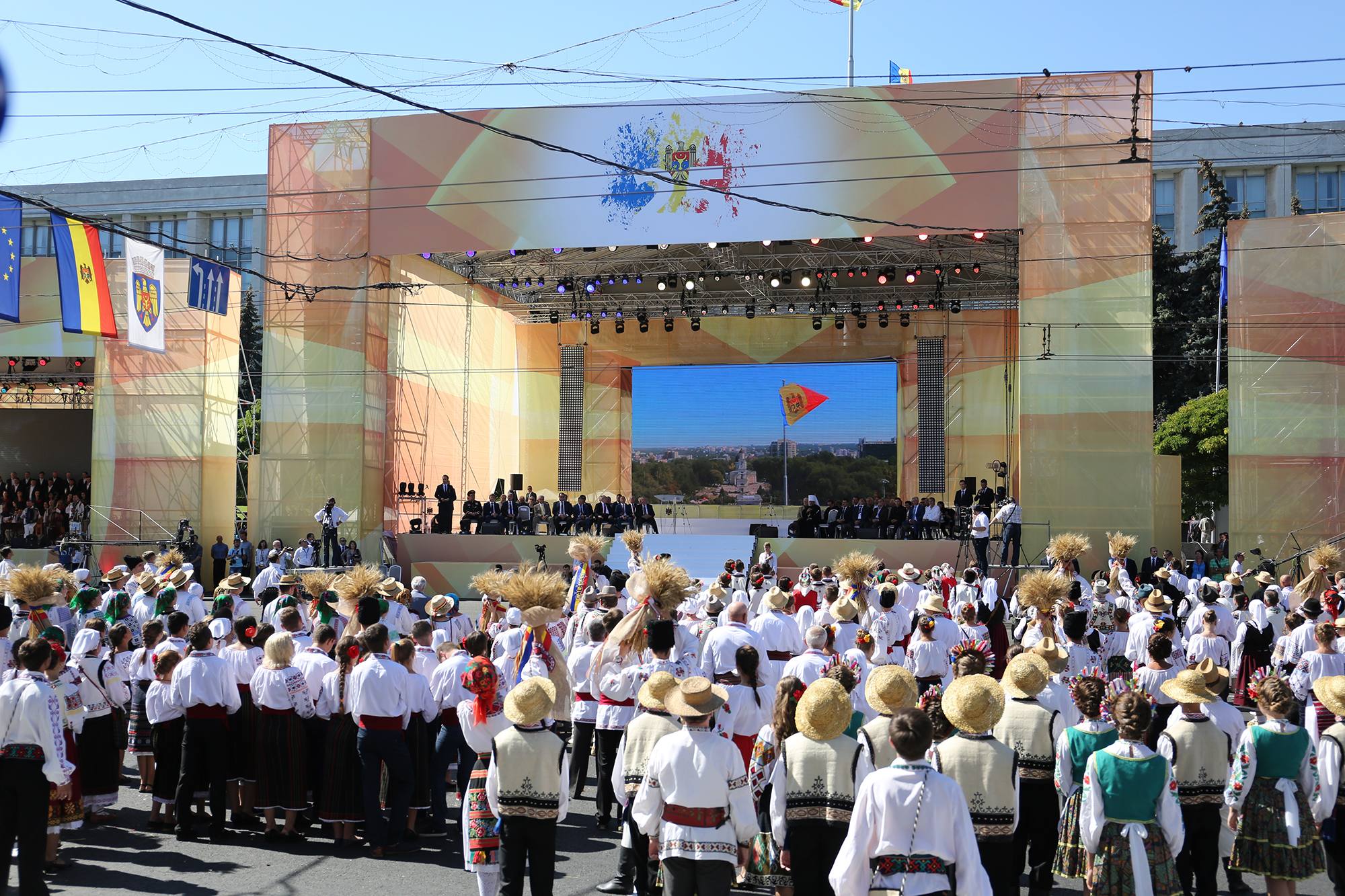 Сьогодні, 27 серпня, Міністр оборони України генерал армії України Степан Полторак взяв участь в урочистостях з нагоди відзначення 25 річниці незалежності Молдови